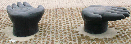 Själsfränder ("Soul Mates") sculpture by Kerstin Ahlgren (1953—), in Årstadal in Stockholm, Sweden.